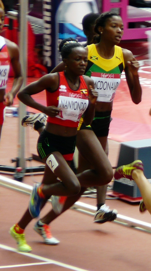 Winnie Nanyondo and Kimara McDonald at the 2014 Commonwealth Games